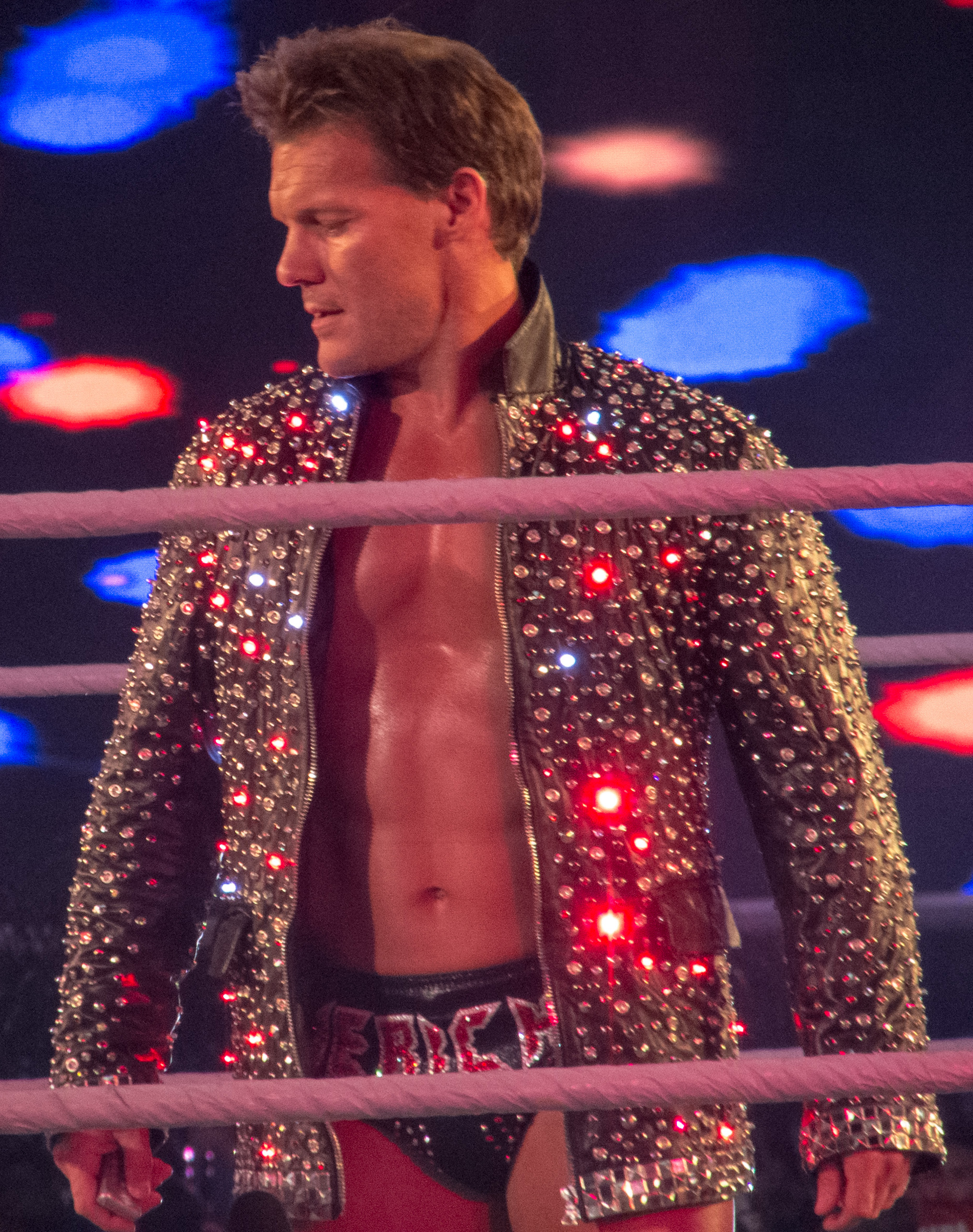 WWE wrestler, Chris Jericho at WrestleMania 28